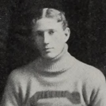 Clemson quarterback John Maxwell cropped from 1902 team picture